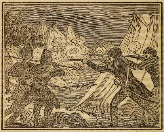 The fights and adventures of the Russian American Company's ship the St Nicholai during a sojourn of a year spent among the hostile Natives of the North West Coast of America; November 1808. Taken from the book The tragedy of the seas; or, Sorrow on the ocean, lake, and river, from shipwreck, plague, fire and famine published (1848). First published 1841.